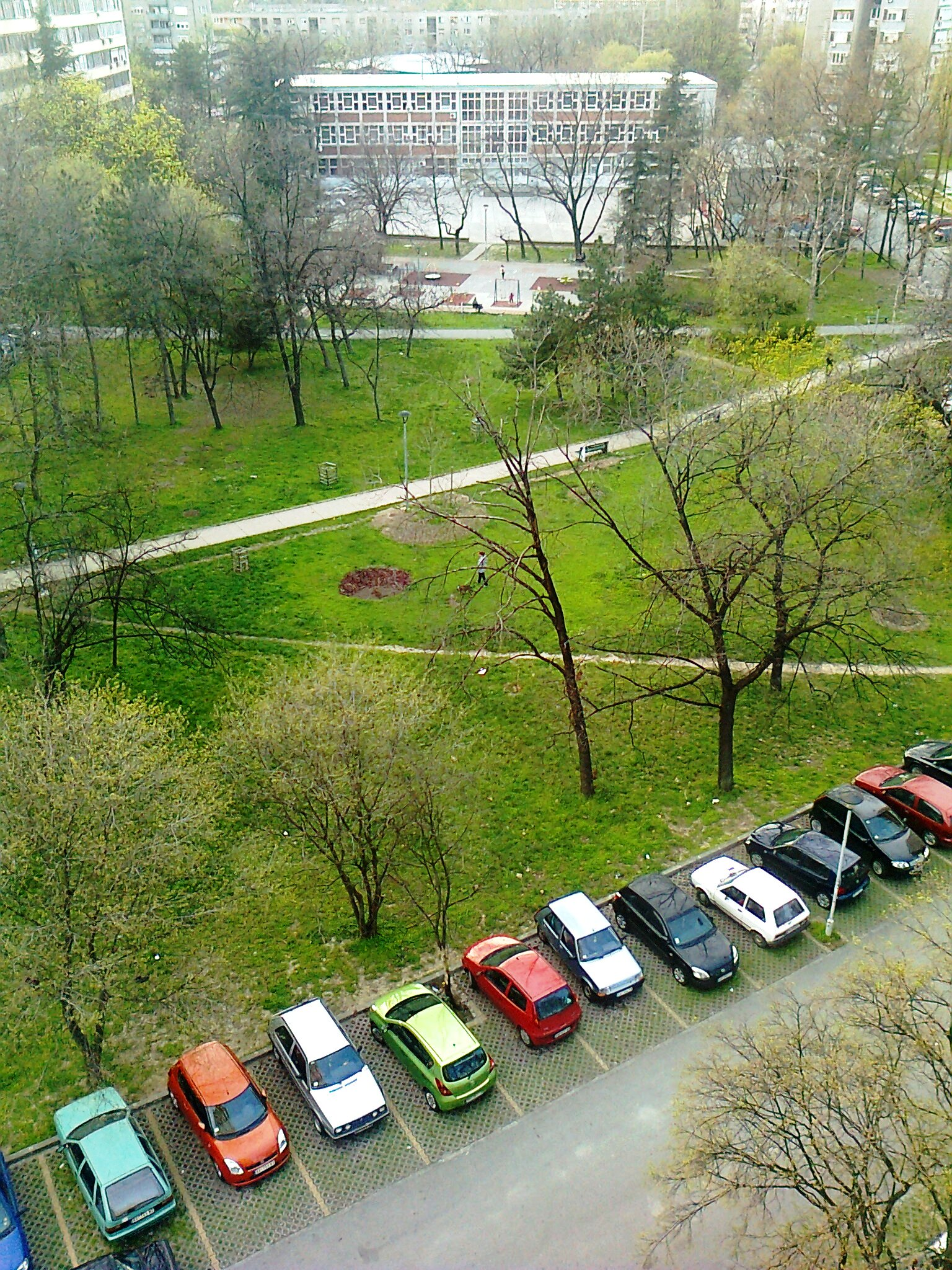 Block 2, New Belgrade, view of the High School of Tourism